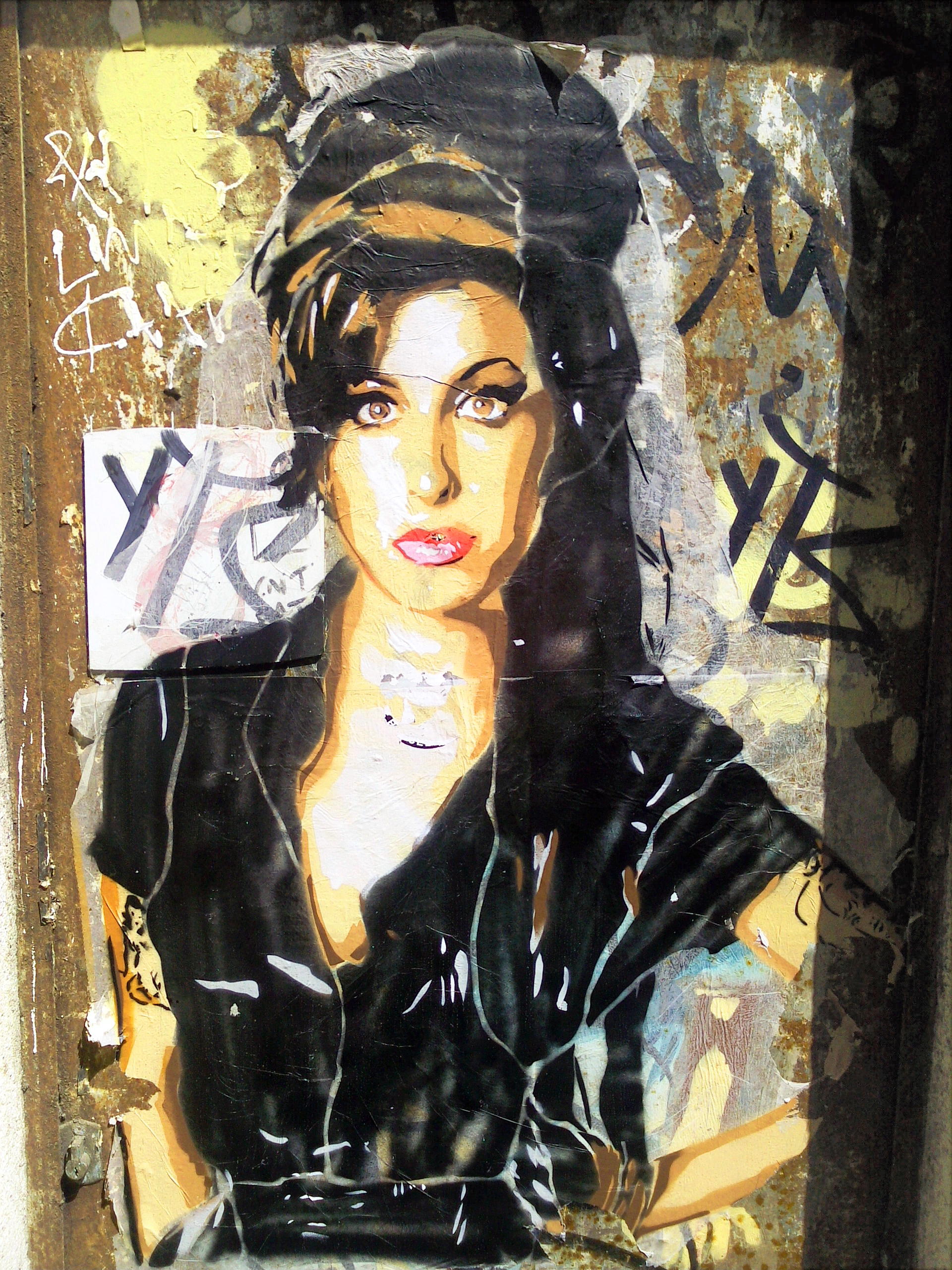 Graffitti depicting Amy Winehouse in Mozart street, Barcelona (Spain). August, 2011